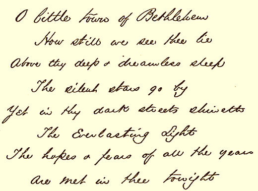 Autograph manuscript of first stanza of O Little Town of Bethlehem.